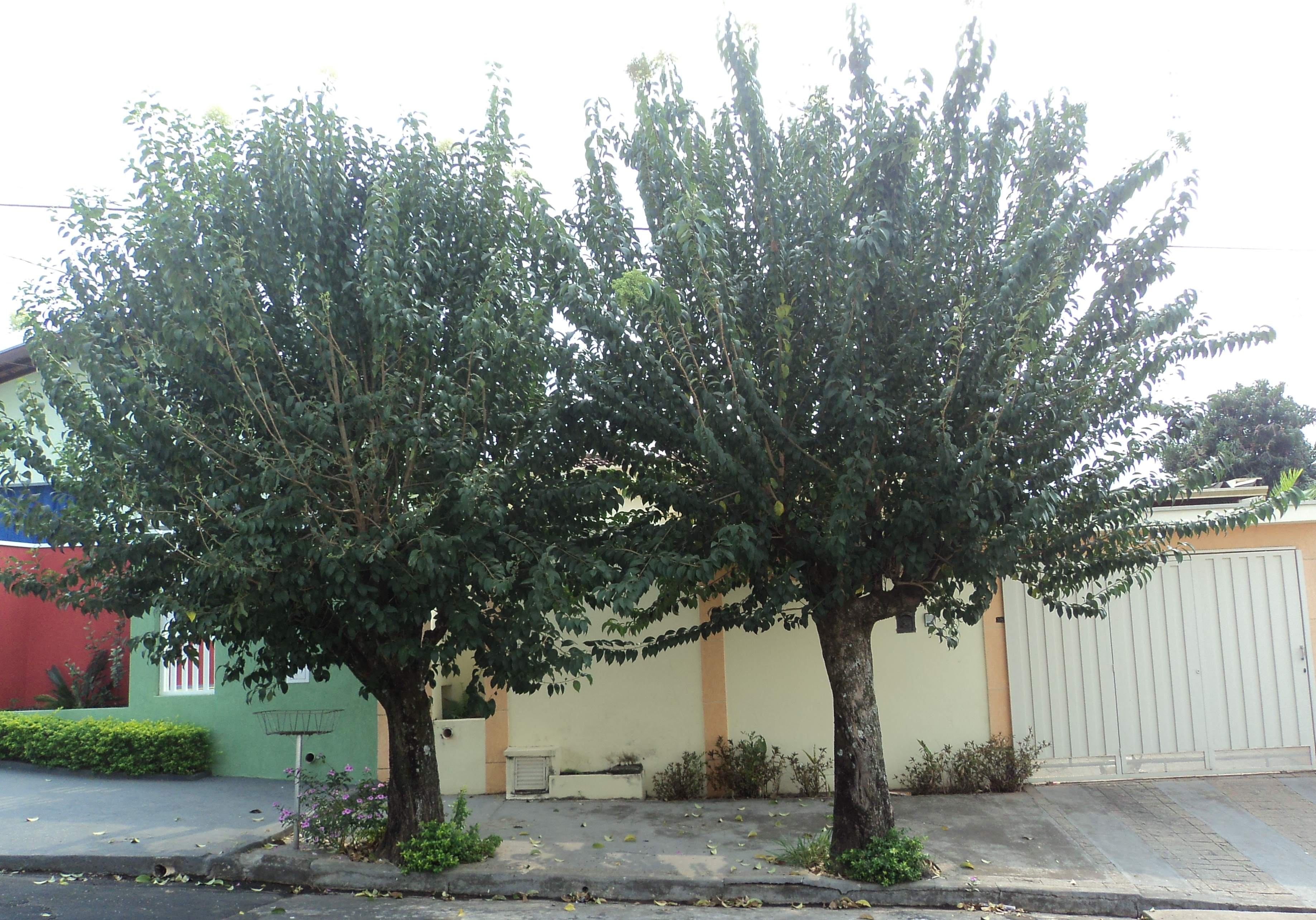 glossy privet, wax-leaf ligustrum, tree privet, wax-leaf privet